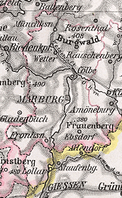 Detail from a map of Hesse.